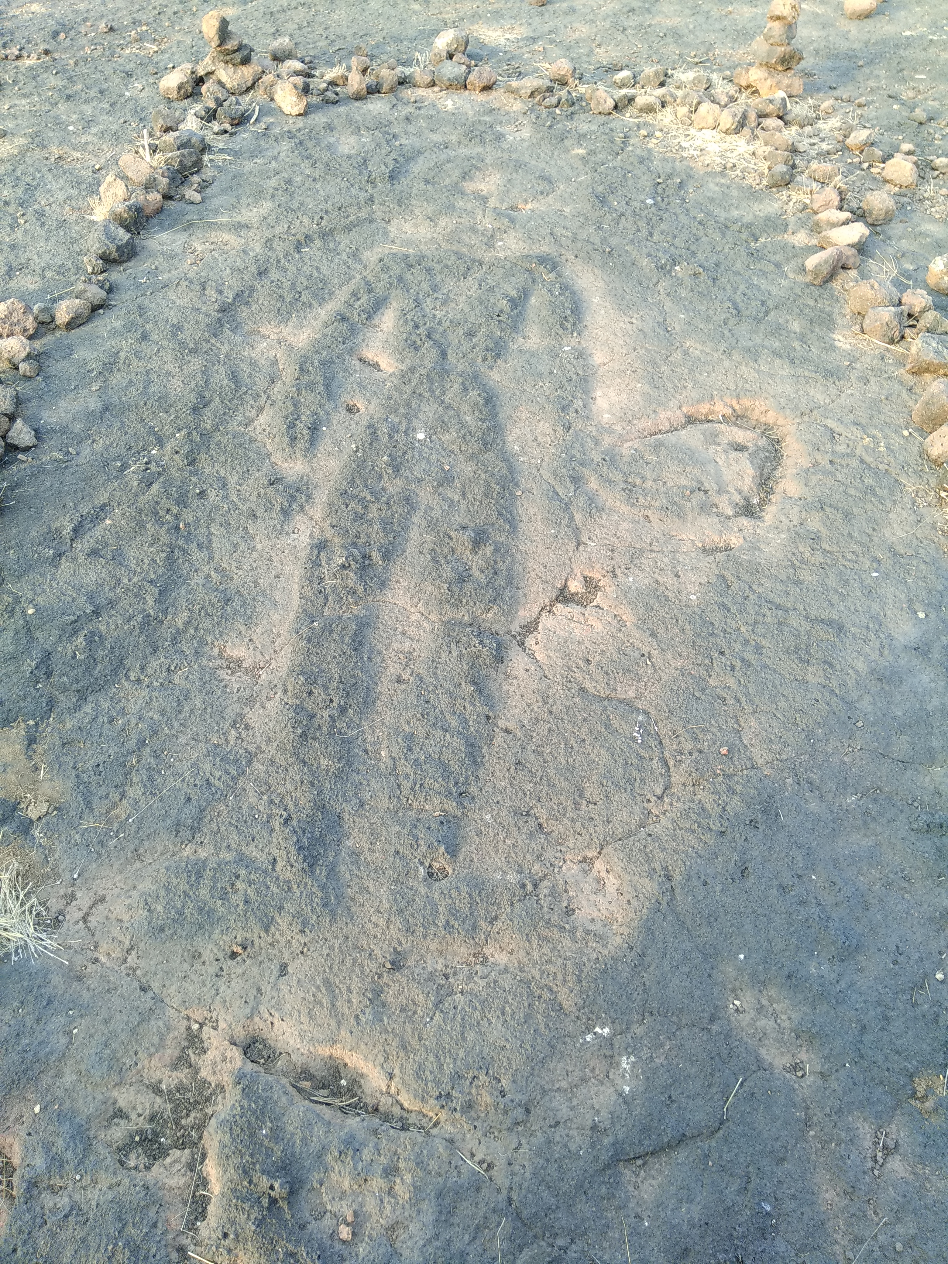 Rockart in Kokan